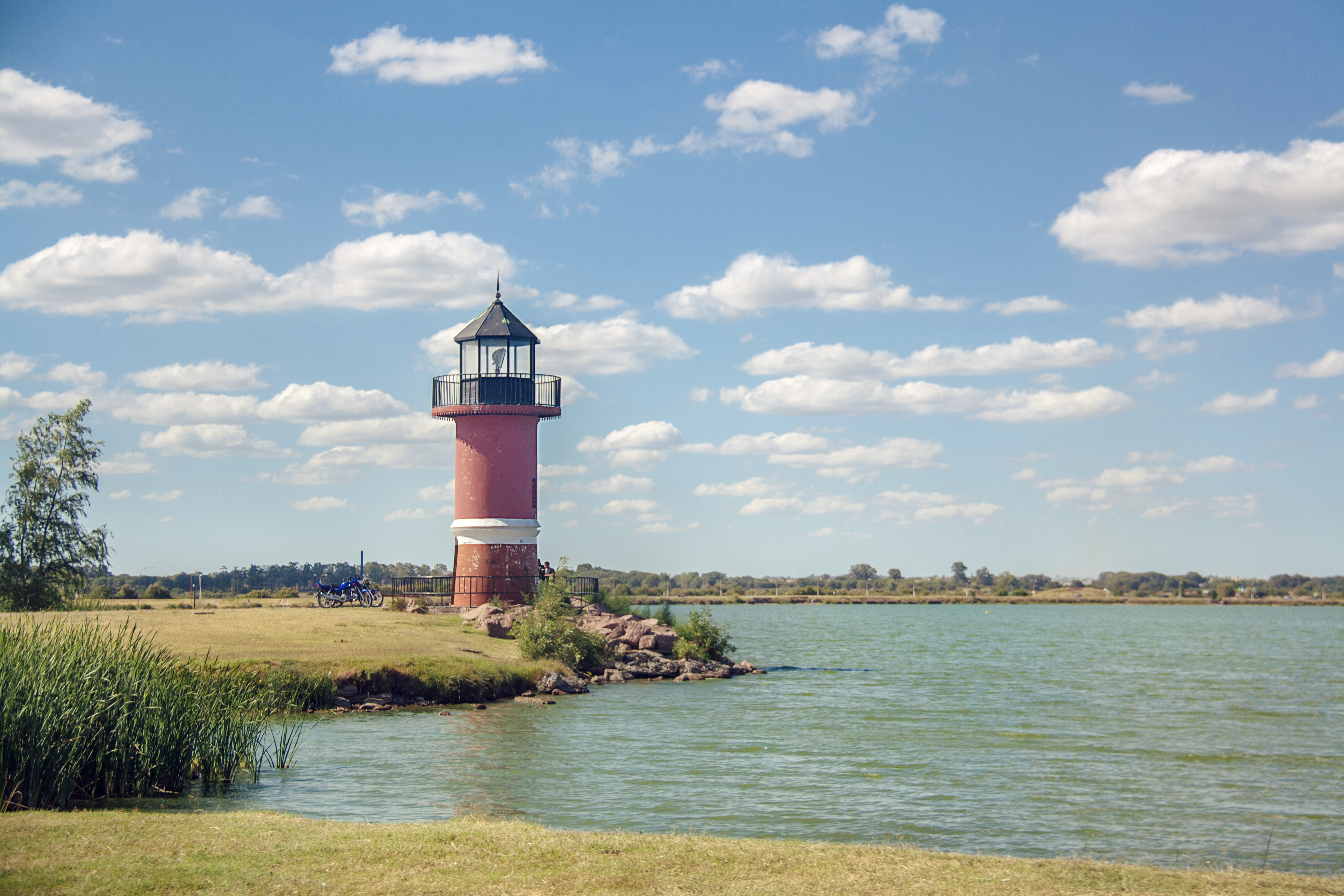 Lighthouse at Lake Don Tomás, Santa Rosa, La Pampa Province, Argentina.